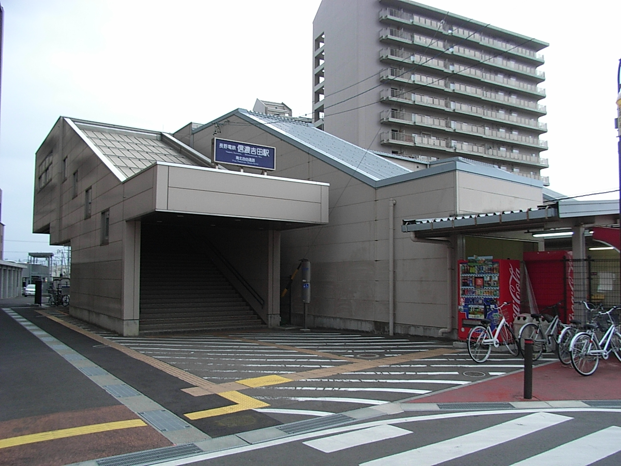 Shinanoyoshida Station(North Entrance) on Nagano Electric Railway Nagano Line. (9-13,Yoshida 3-chome,Nagano-shi,Nagano-ken,JAPAN)